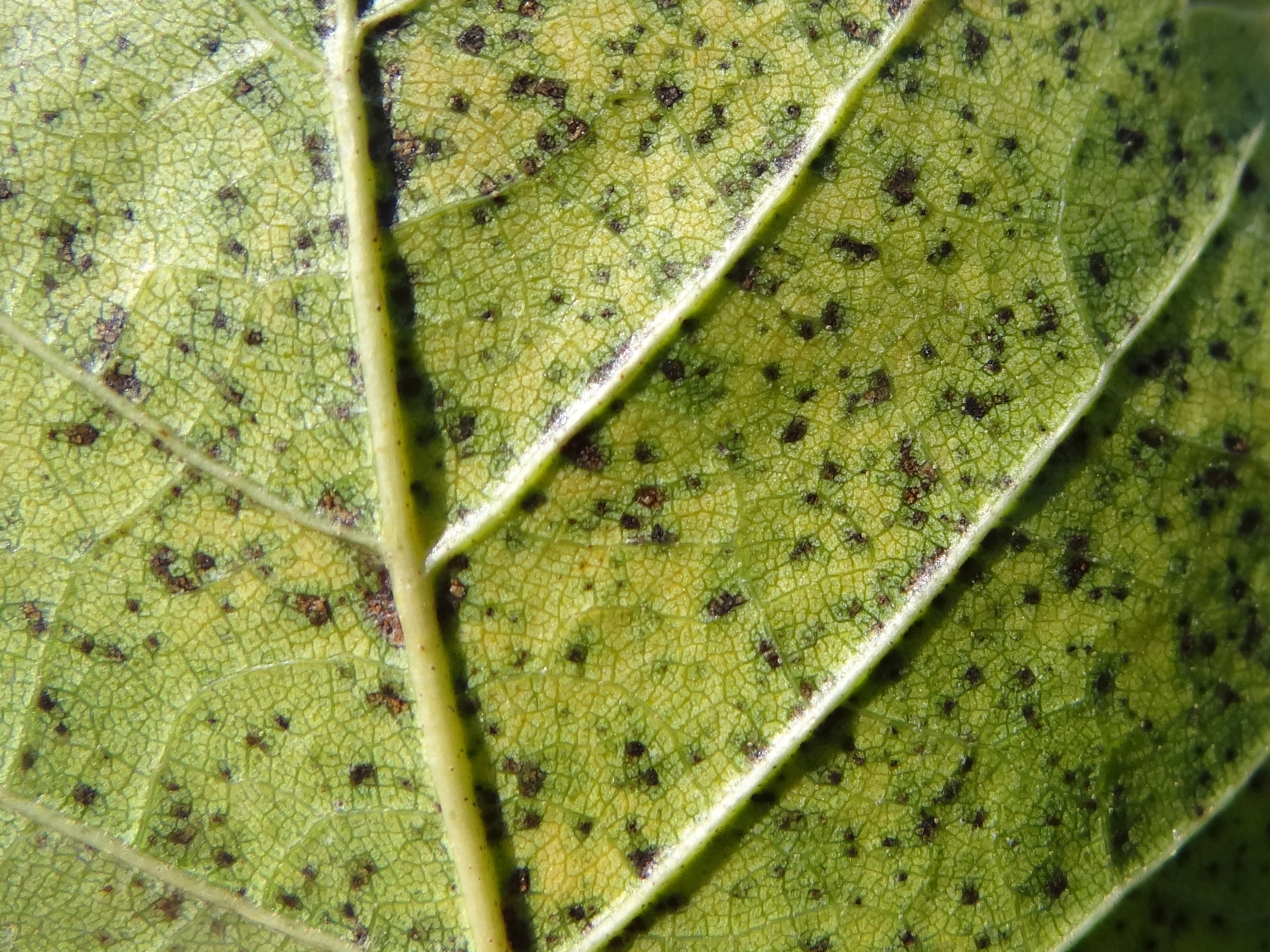 Drepanopeziza, probably D. punctiformis on Populus sp. Location: Poland, Łapanów